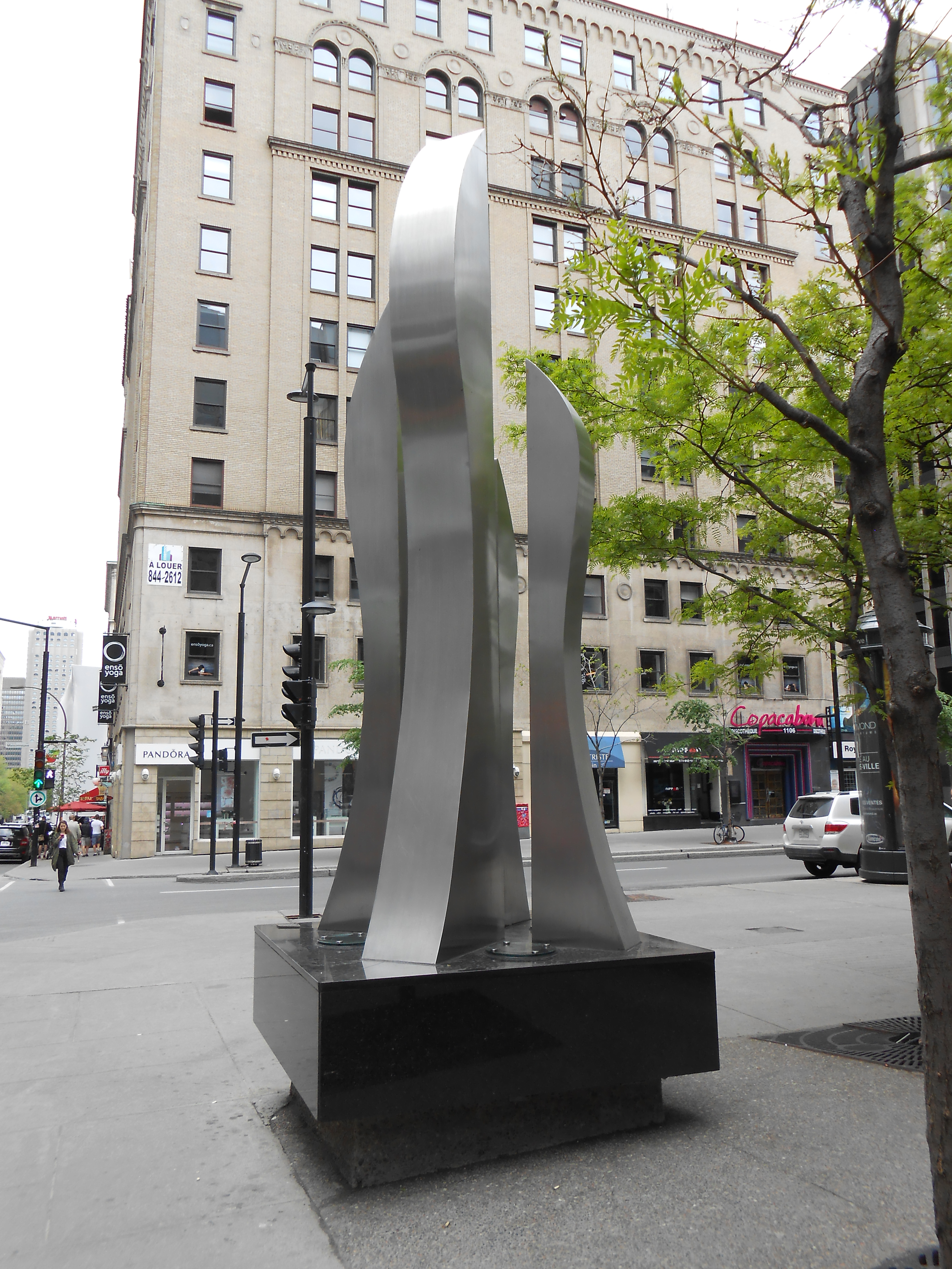 Enterspace (1980-1981), by Maurice Lemieux, In front of the building at 2000 Peel Street at the corner of De Maisonneuve Boulevard, near the Peel metro station exit